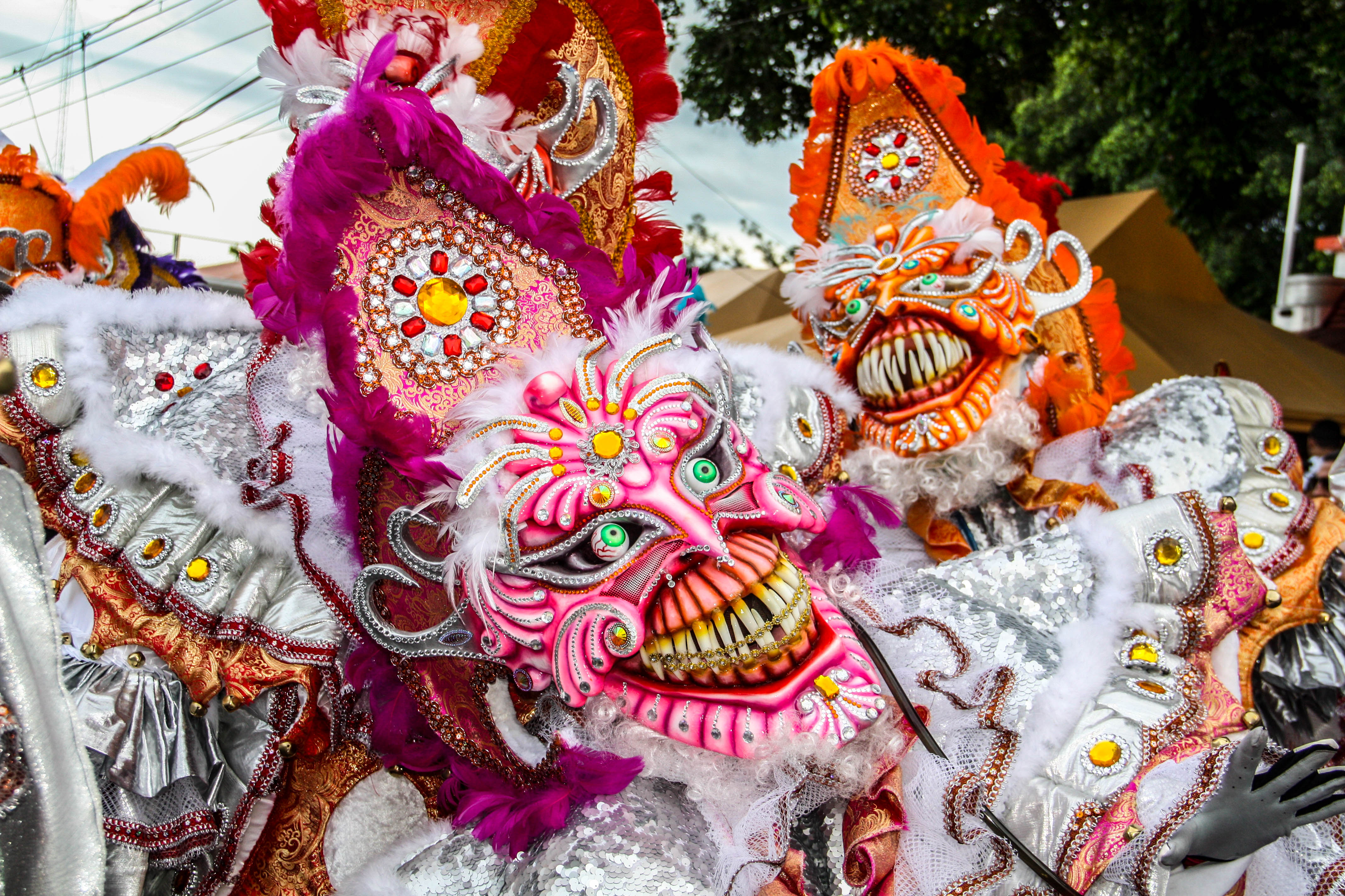 Carnival in Concepción de La Vega, Dominican Republic